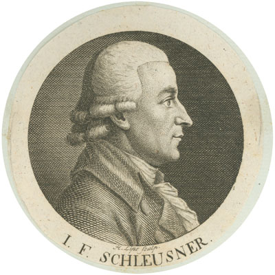 Johann Friedrich Schleusner (January 16th 1759 - February 21 1831), German Protestant theologian